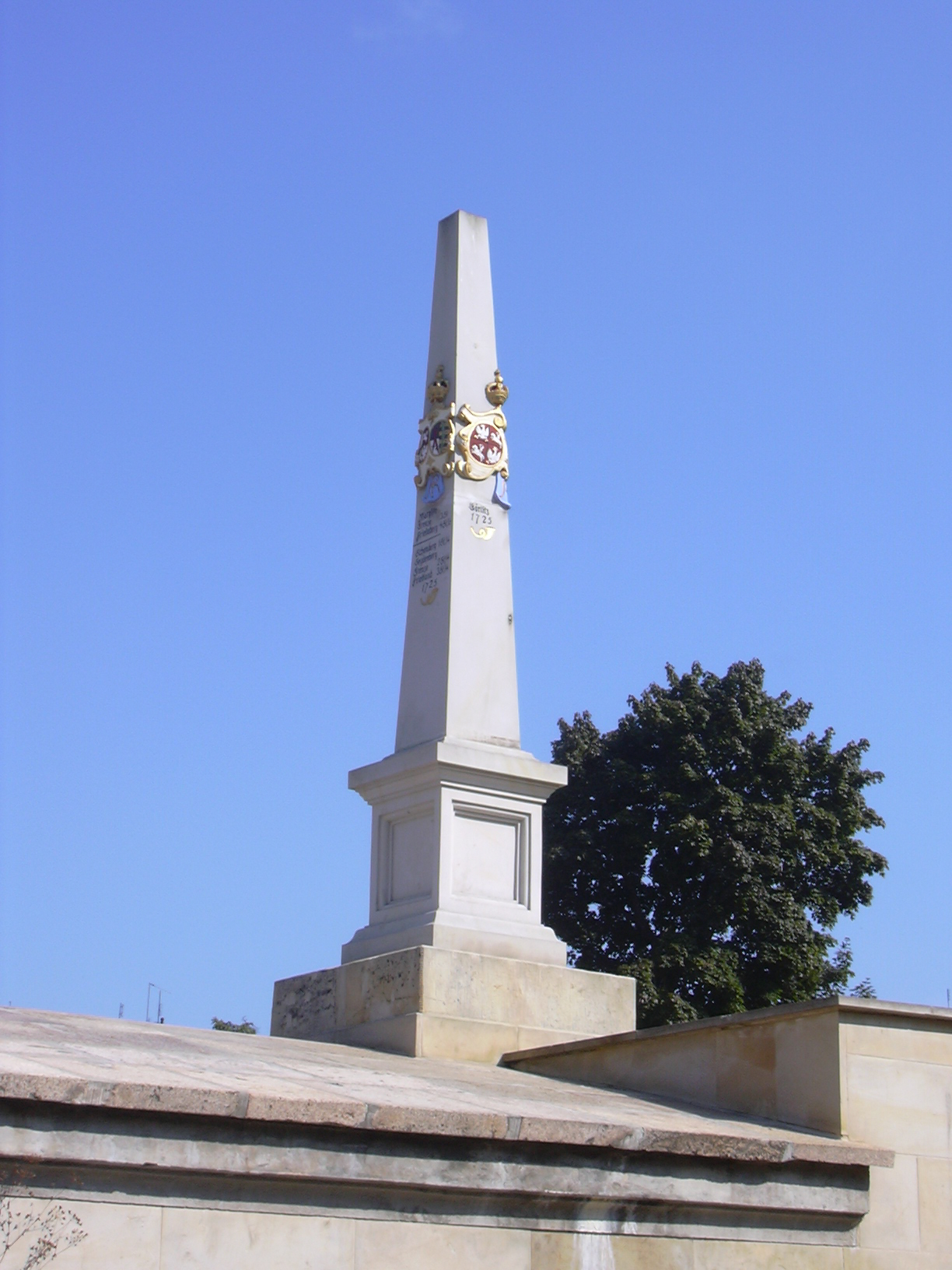 Historic Saxon post mile column, 18th century; example Görlitz, since 1945 Polish part of the city